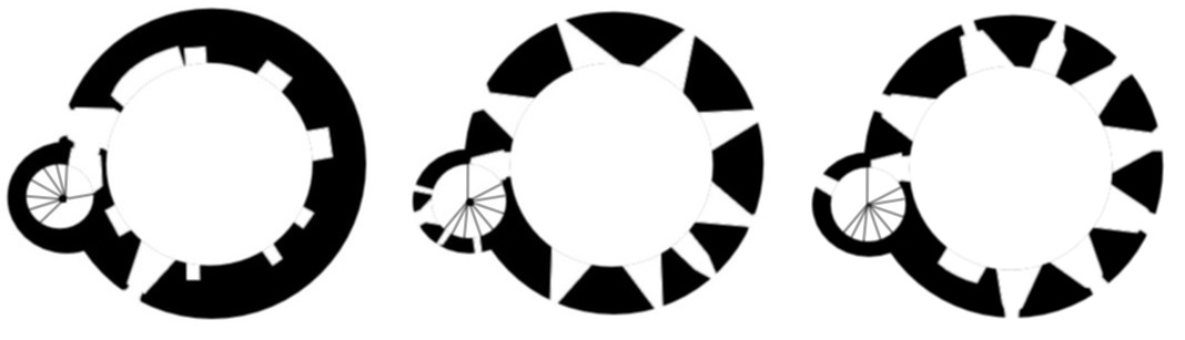 Ground and first floor plan for Cow Tower; after Saunders, Ayers, Smith and Tillyard (simplified)